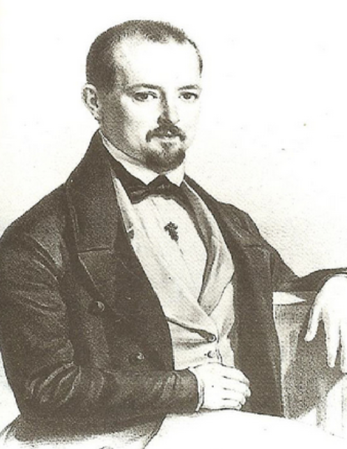 Settimeo Malvezzi, tenor opera singer